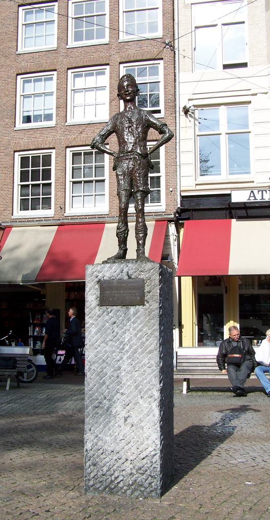 statue called "Het Amsterdamse Lieverdje" (translation: Amsterdam's Lovely Boy). Originally placed as a gypsum statue for a streetfestival in 1959. It was so appreciated that it eventually was remade in copper in 1960. Thanks to the Hunter Cigarette Company. It was created by Carel Kneulman and is situated at the Spui in Amsterdam.